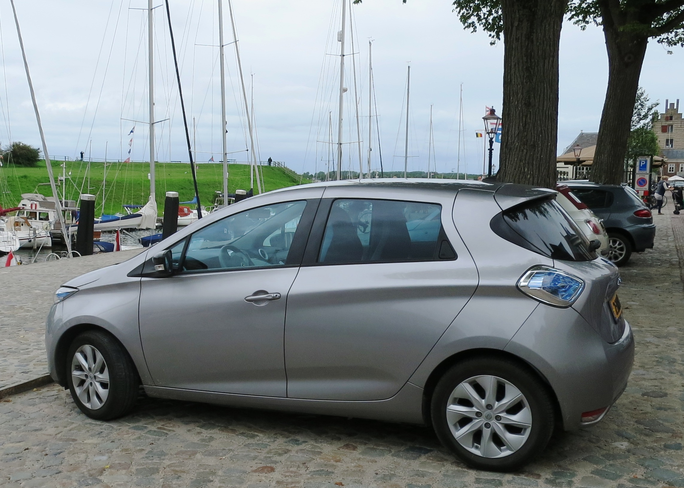 Renault Zoe rear three quarters